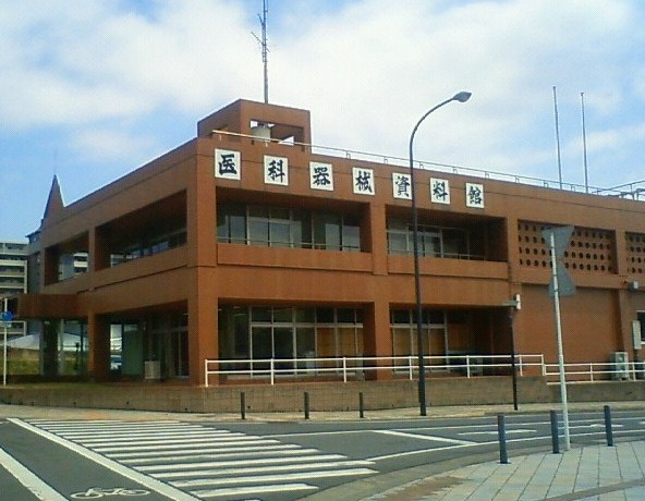 The building of the musium of traditional medical equipments in Japan